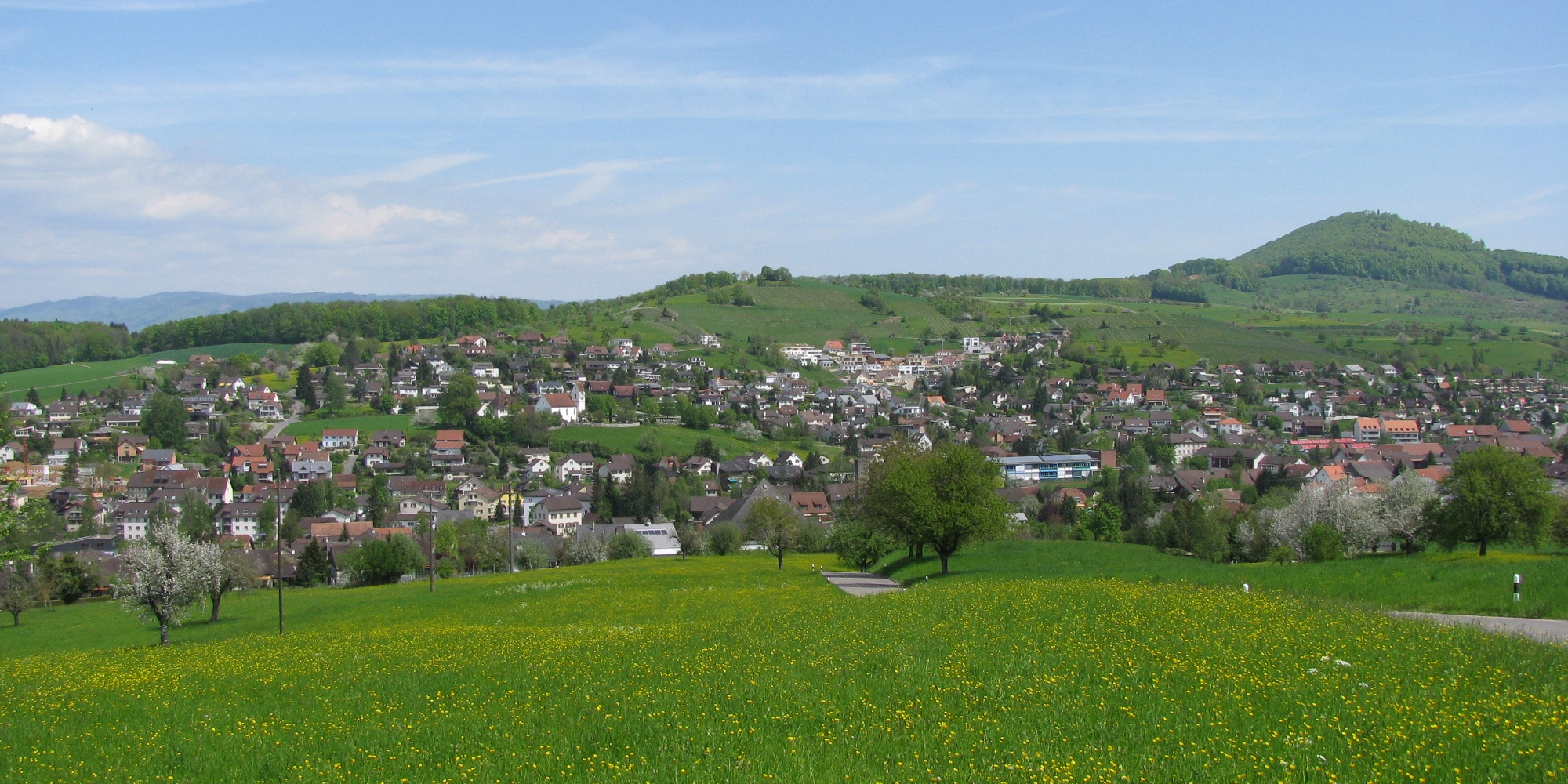 View of Magden. On the right-hand side in the background the "Sonnenberg" mountain